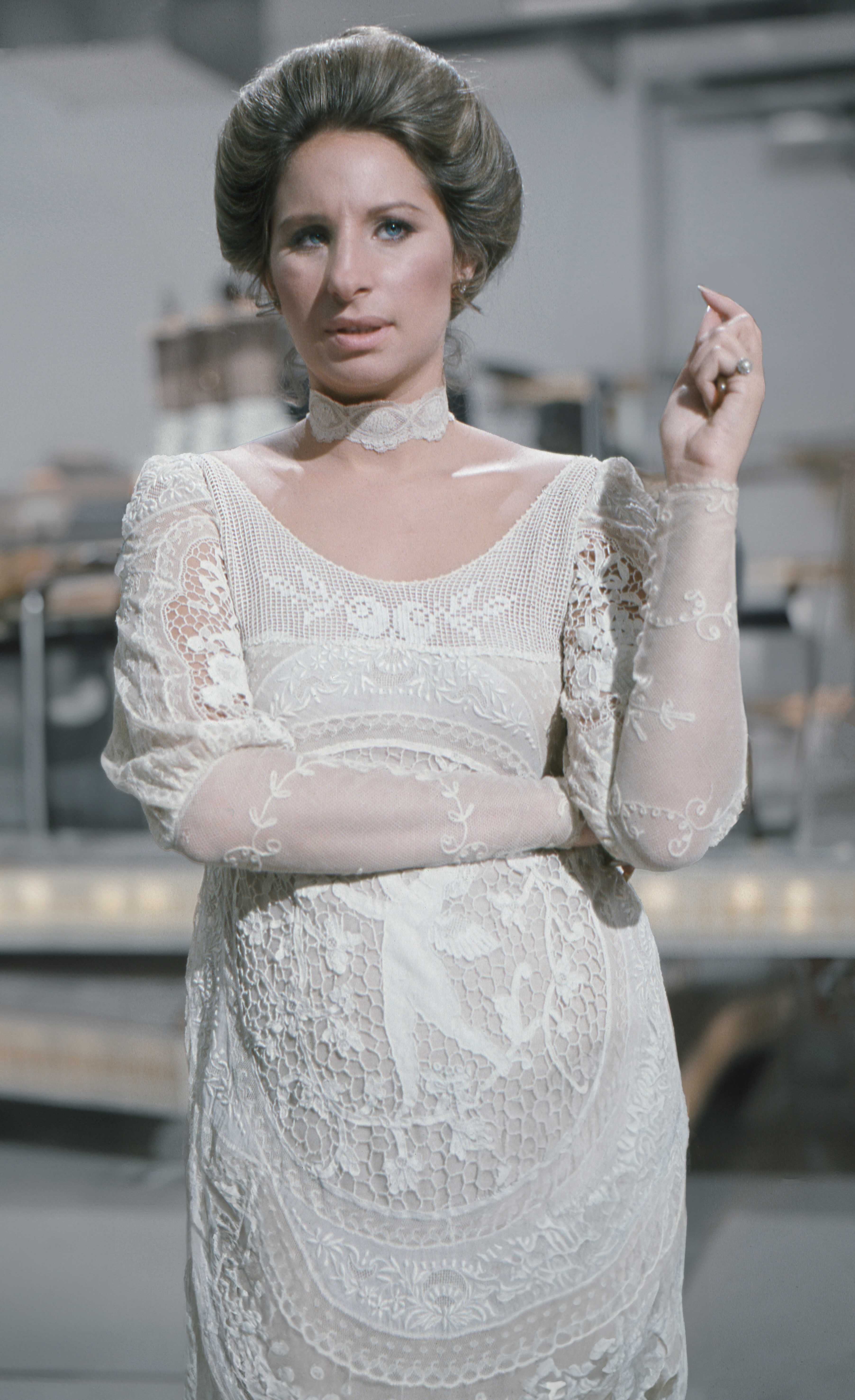 Portrait of Barbra Streisand taken in London during the taping of her TV Special 'Barbra Streisand... and other Musical Instruments'.